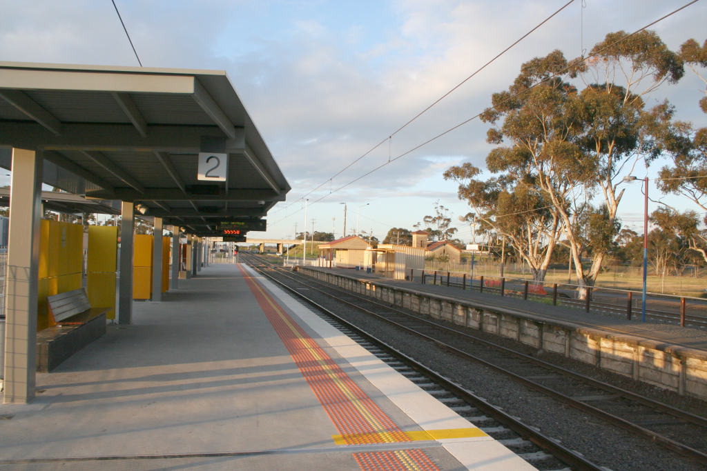 Overview of platforms at Craigieburn station, Victoria, Australia